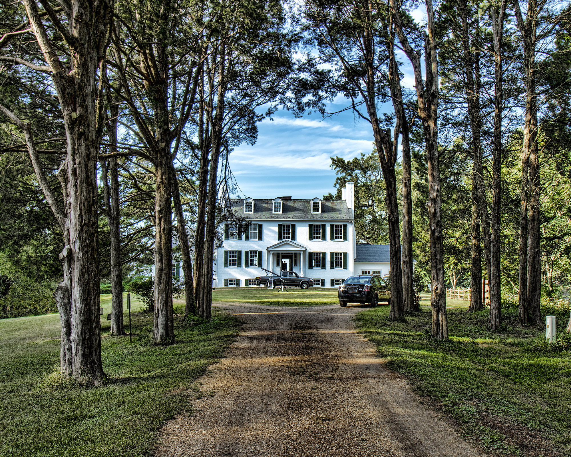 Mount Aventine, 1.8 miles southwest of Bryans Rd. on the northewstern side of Chapman